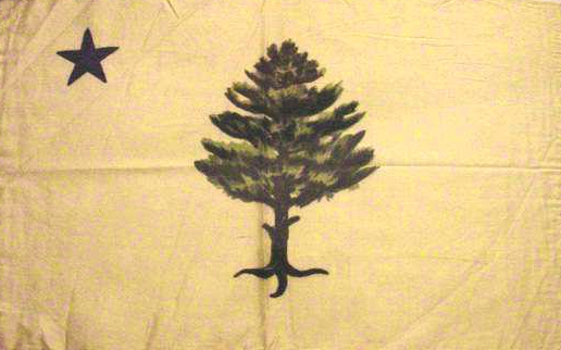 Flag of Maine (1901 to 1909)